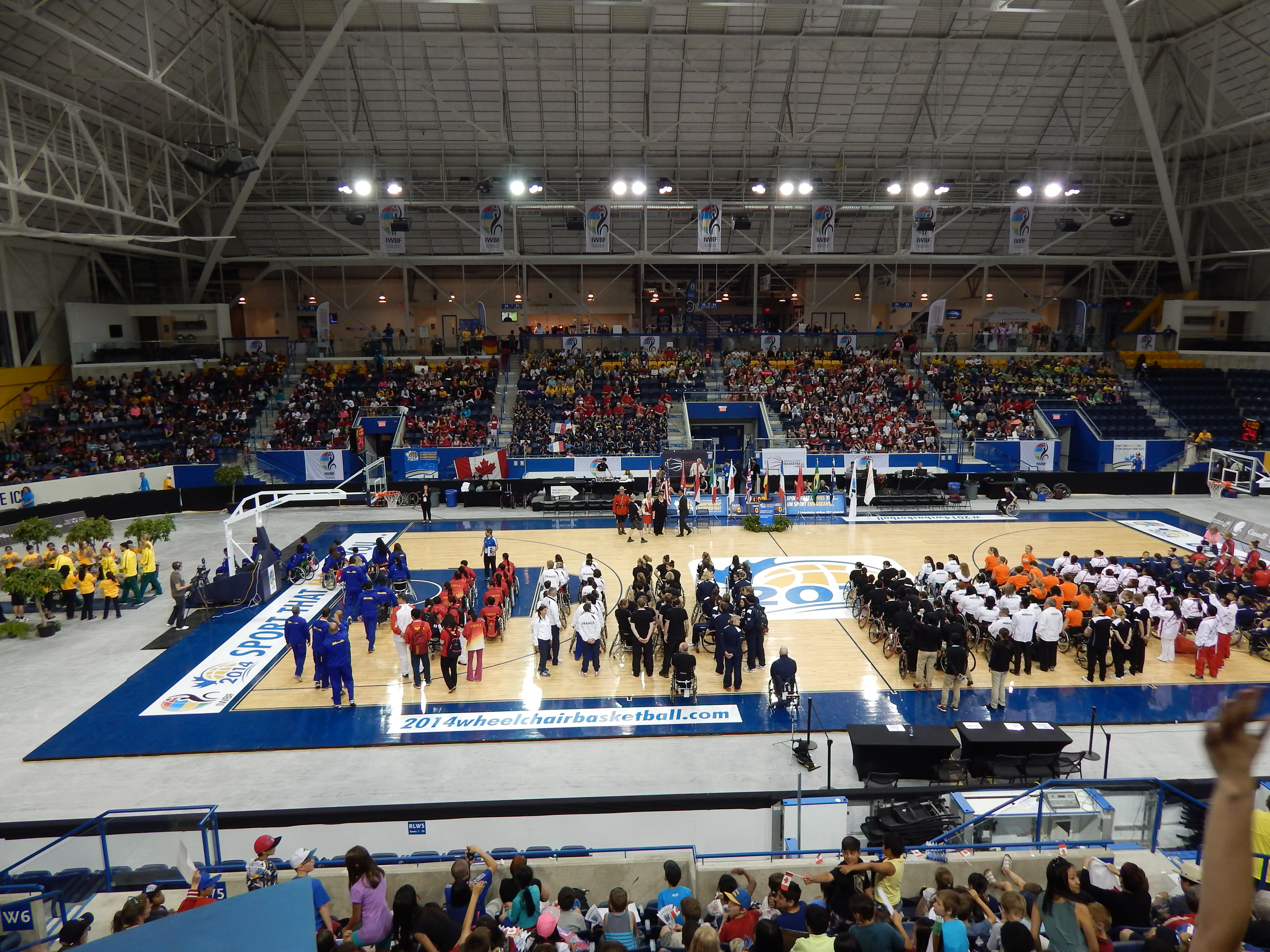 2014 Women's Wheelchair Basketball Championships - Opening Ceremony